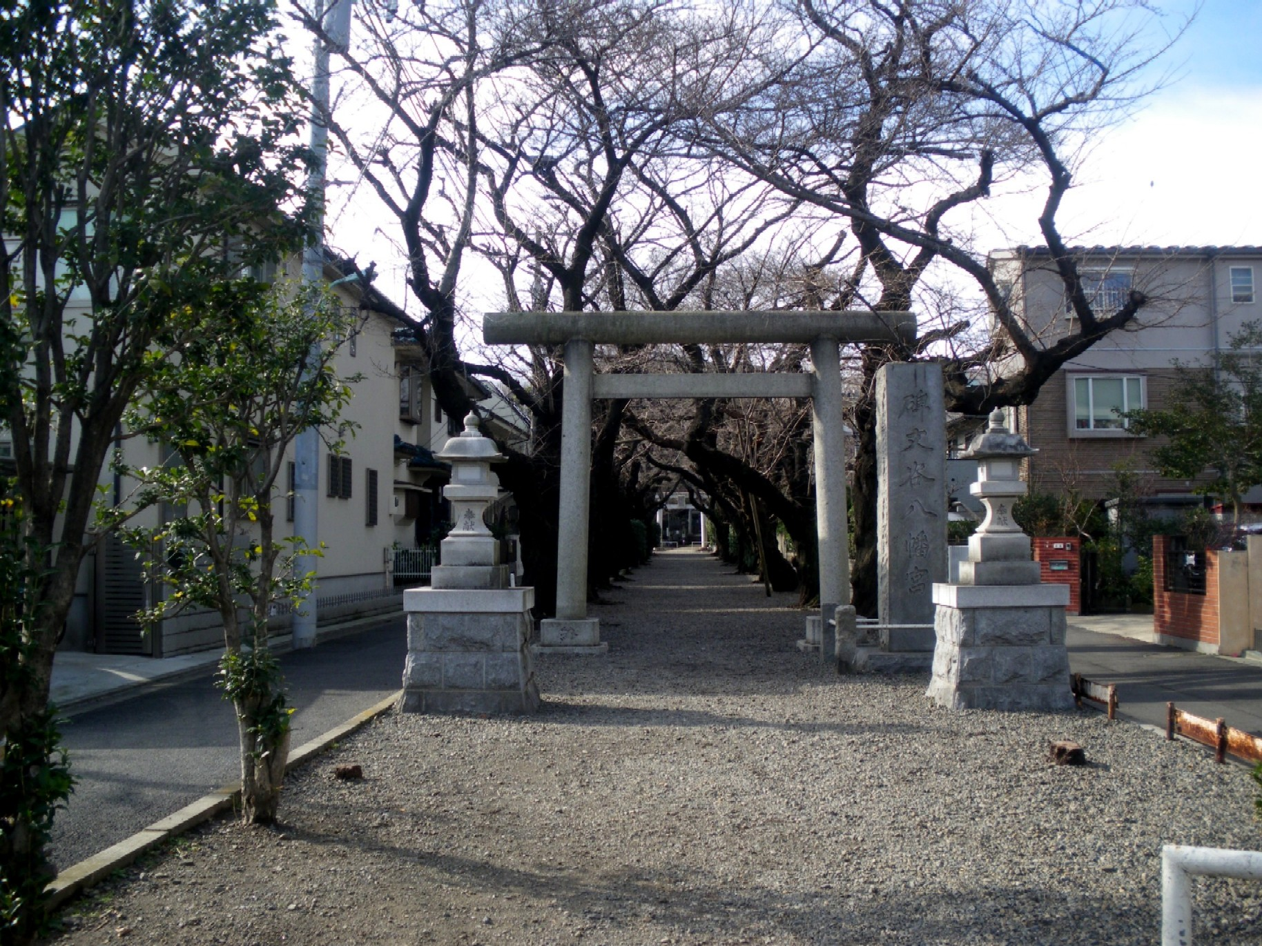 Photo of Himonya Hachimangu Shrine,Himonya Meguro-ku,Tokyo,Japan.